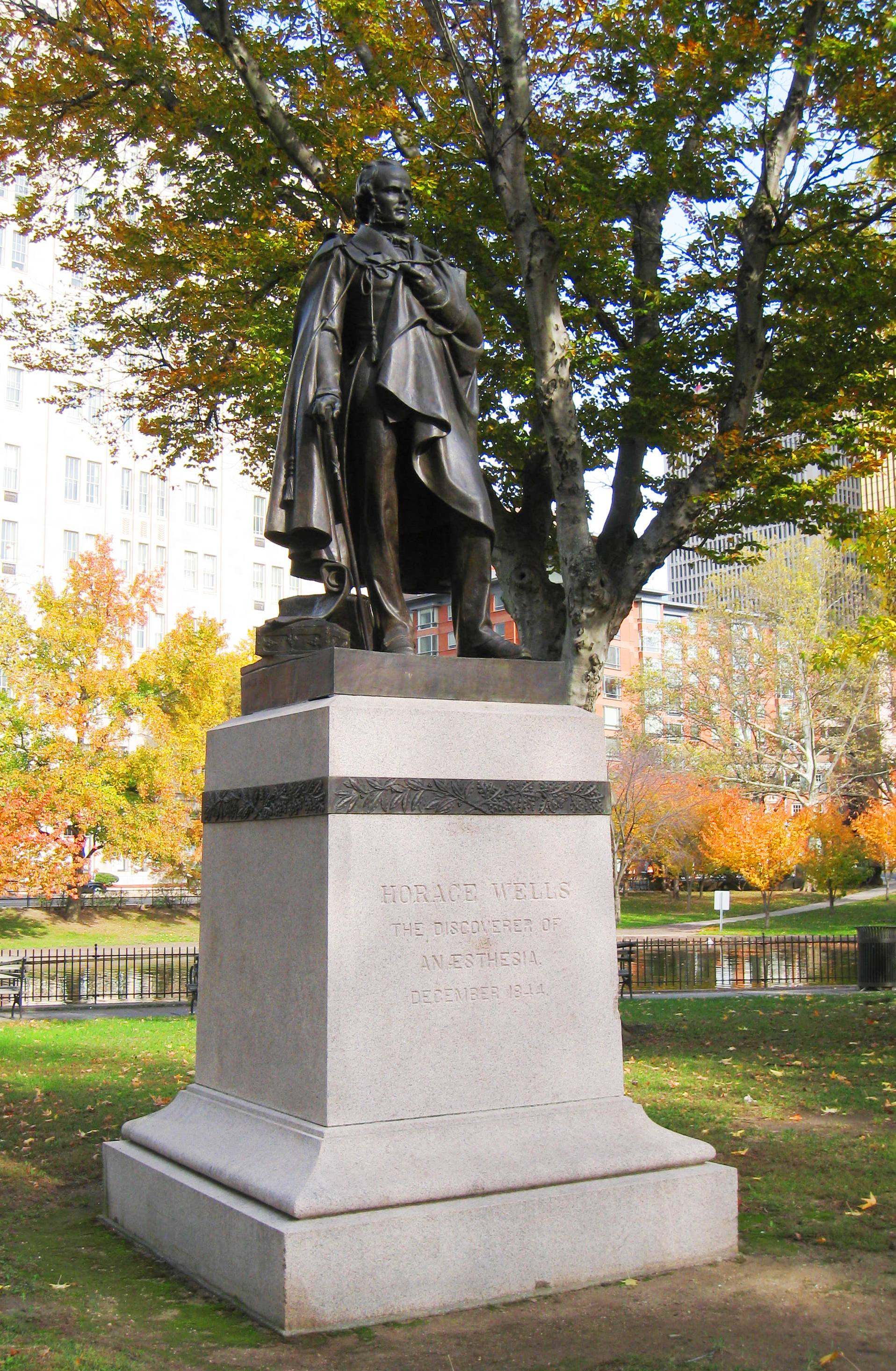 Horace Wells Monument, Bushnell Park, Hartford, Connecticut, USA. Sculptor Truman H. Bartlett (1835-1922); monument erected in 1875. If this sculpture were ever covered by copyright, it has long since expired.